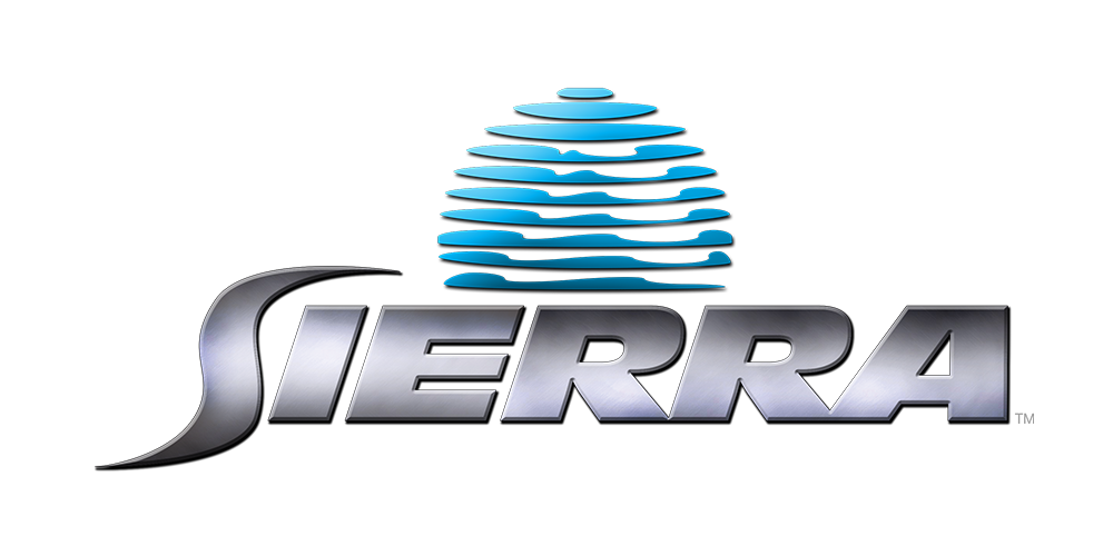 The logo of the rebooted Sierra, revealed in 2014 by Activision.